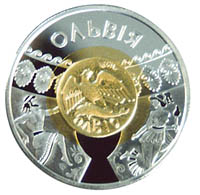 Coin of Ukraine